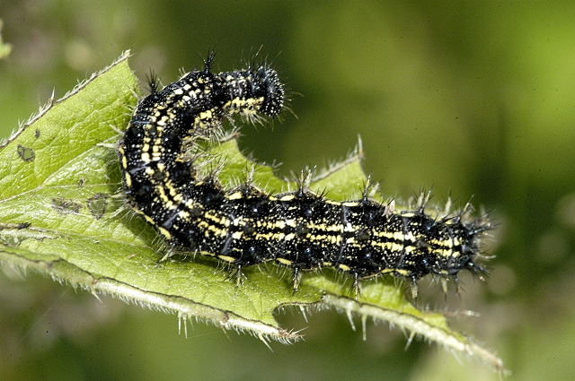 Picture taken in Commanster, Belgian High Ardennes . Species: Aglais urticae larva